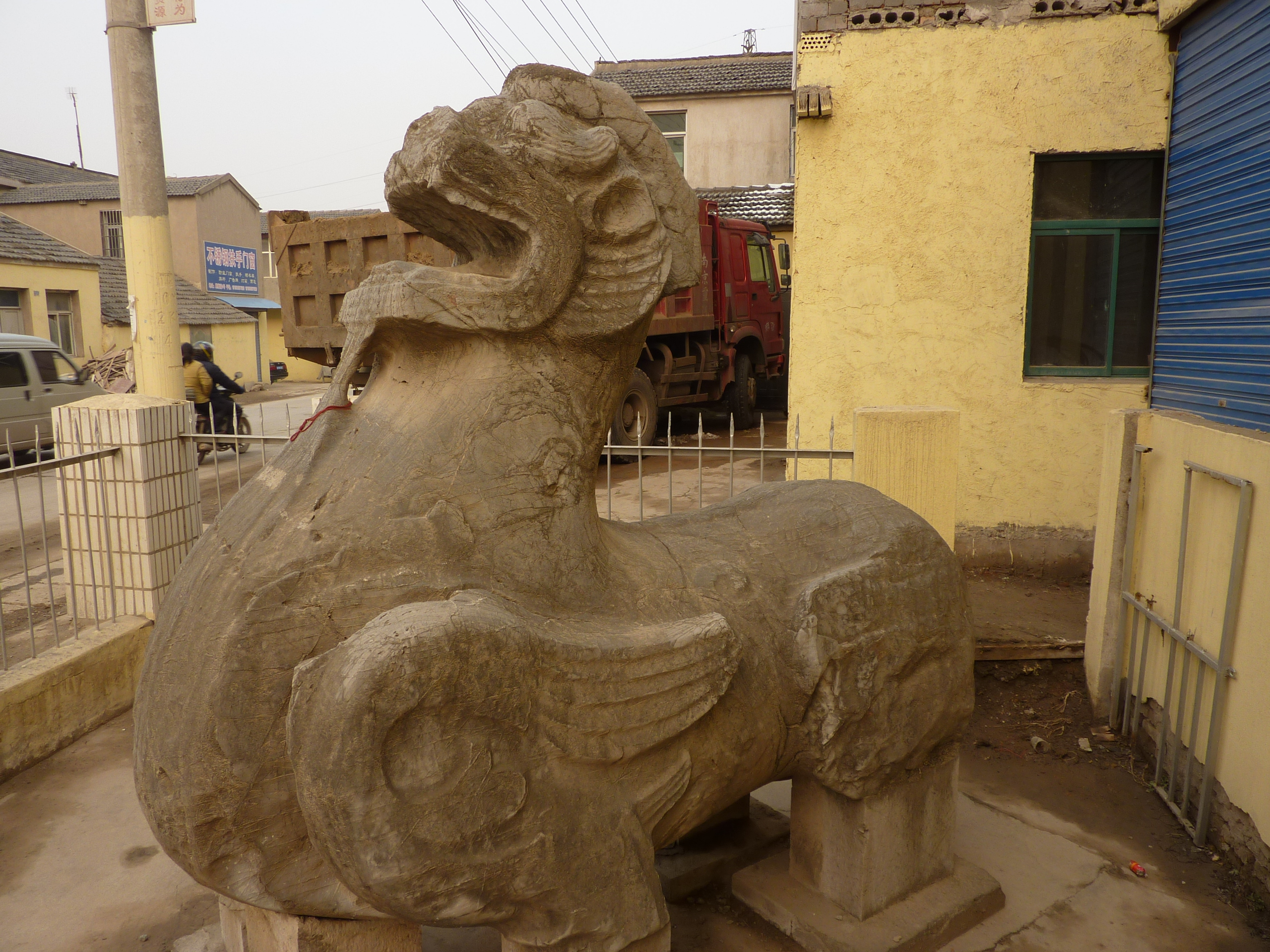 The Chuning Tomb, in the present day Qilin Town near Nanjing, is the tomb of Emperor Wu of Liu Song (363–422). All that remains there are two qilin statues, facing each other across a mostly residential street in the appropriately named Qilinpu ("Qilin capture") neighborhood of the Qilin Town.